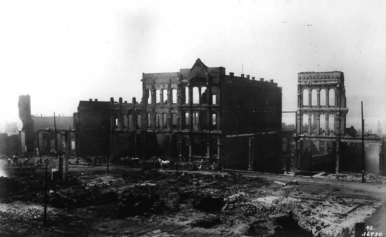 Looking southwest. Original photograph by John P. Soule [1]. Subjects (LCTGM): Fires--Washington (State)--Seattle Subjects (LCSH): Seattle (Wash.)--Fire, 1889